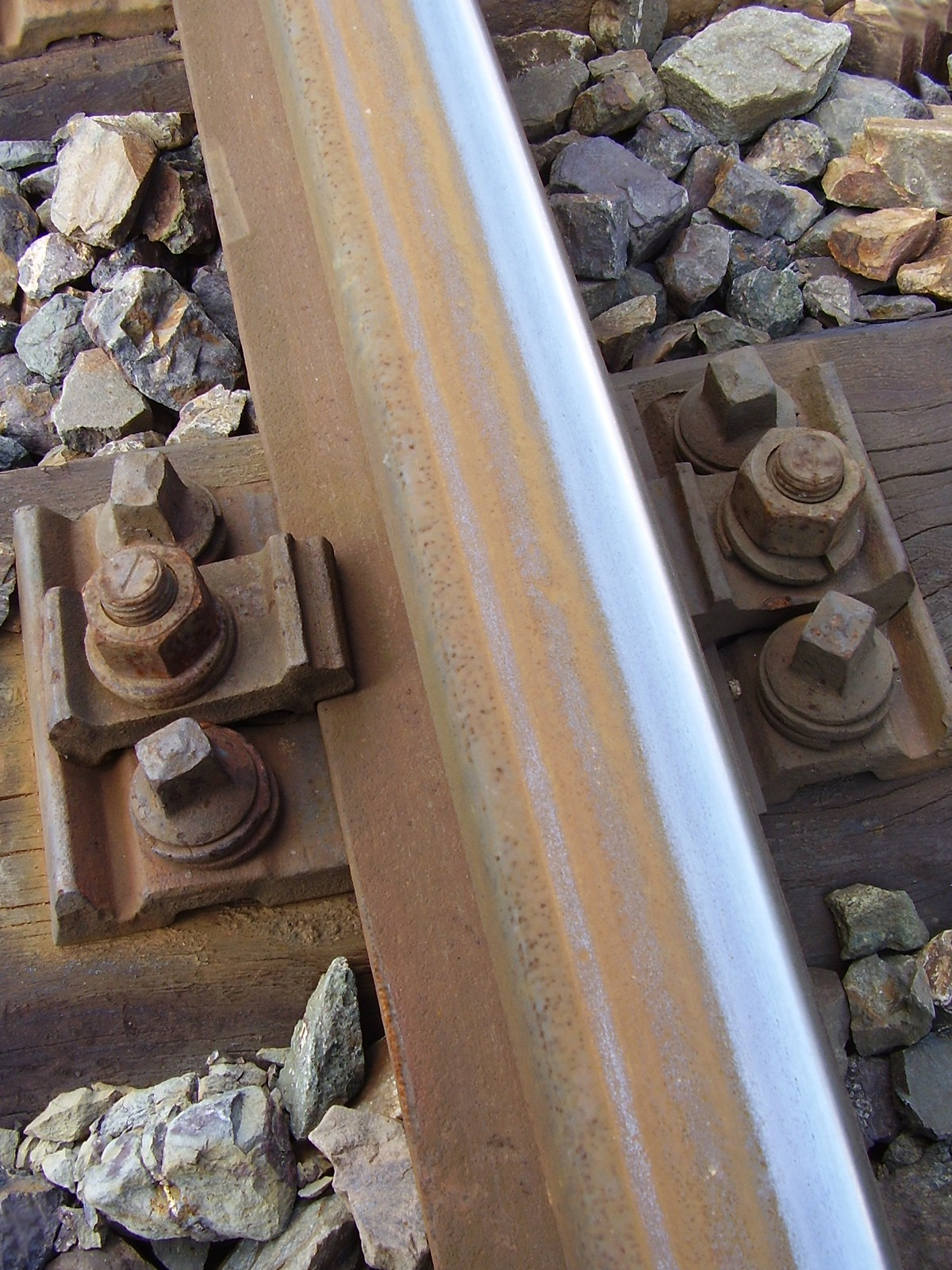 Rail on line 200 near Lochovice